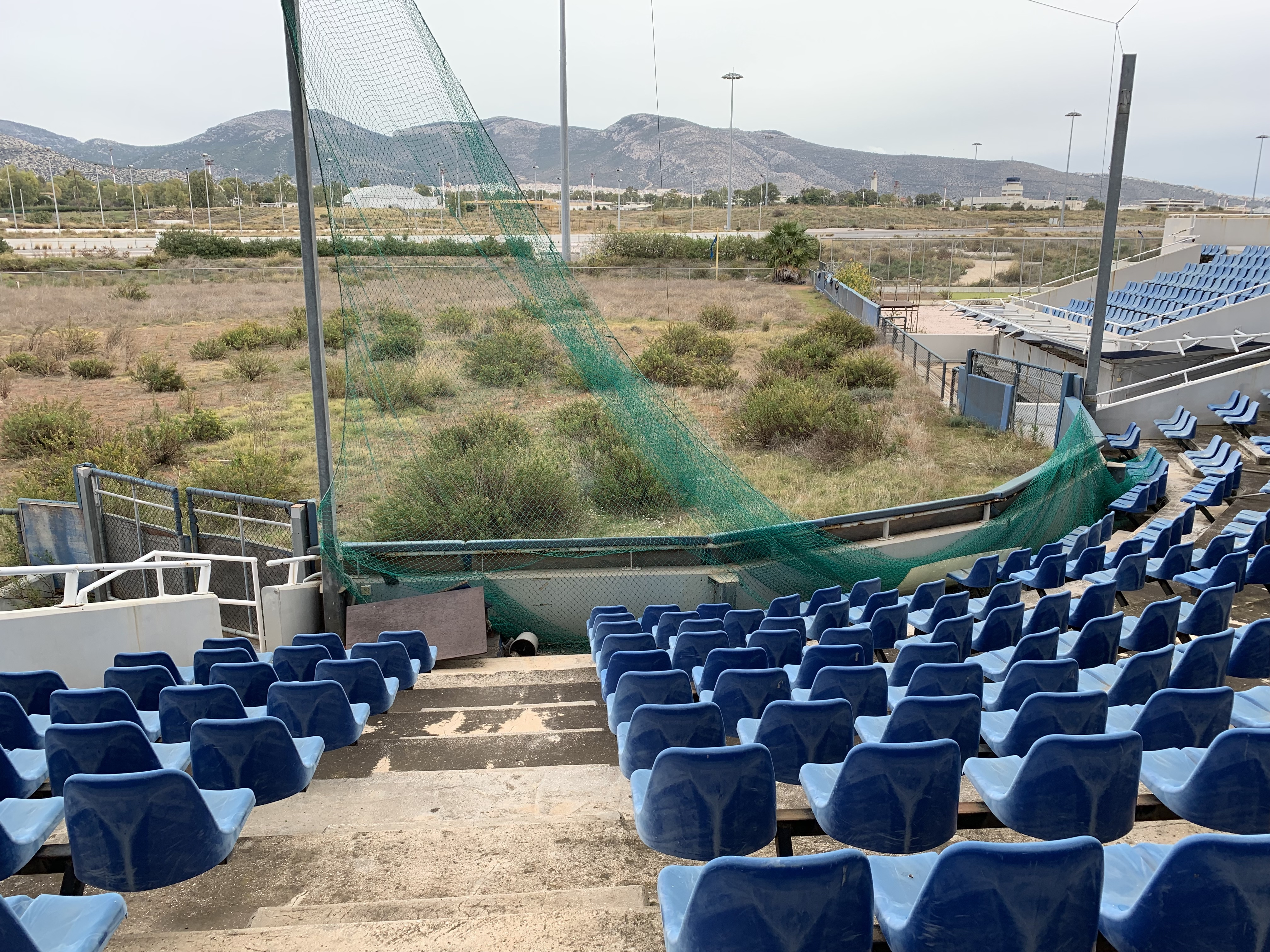 2004 Athens Olympic Softball Stadium - shown abandoned in November 2018